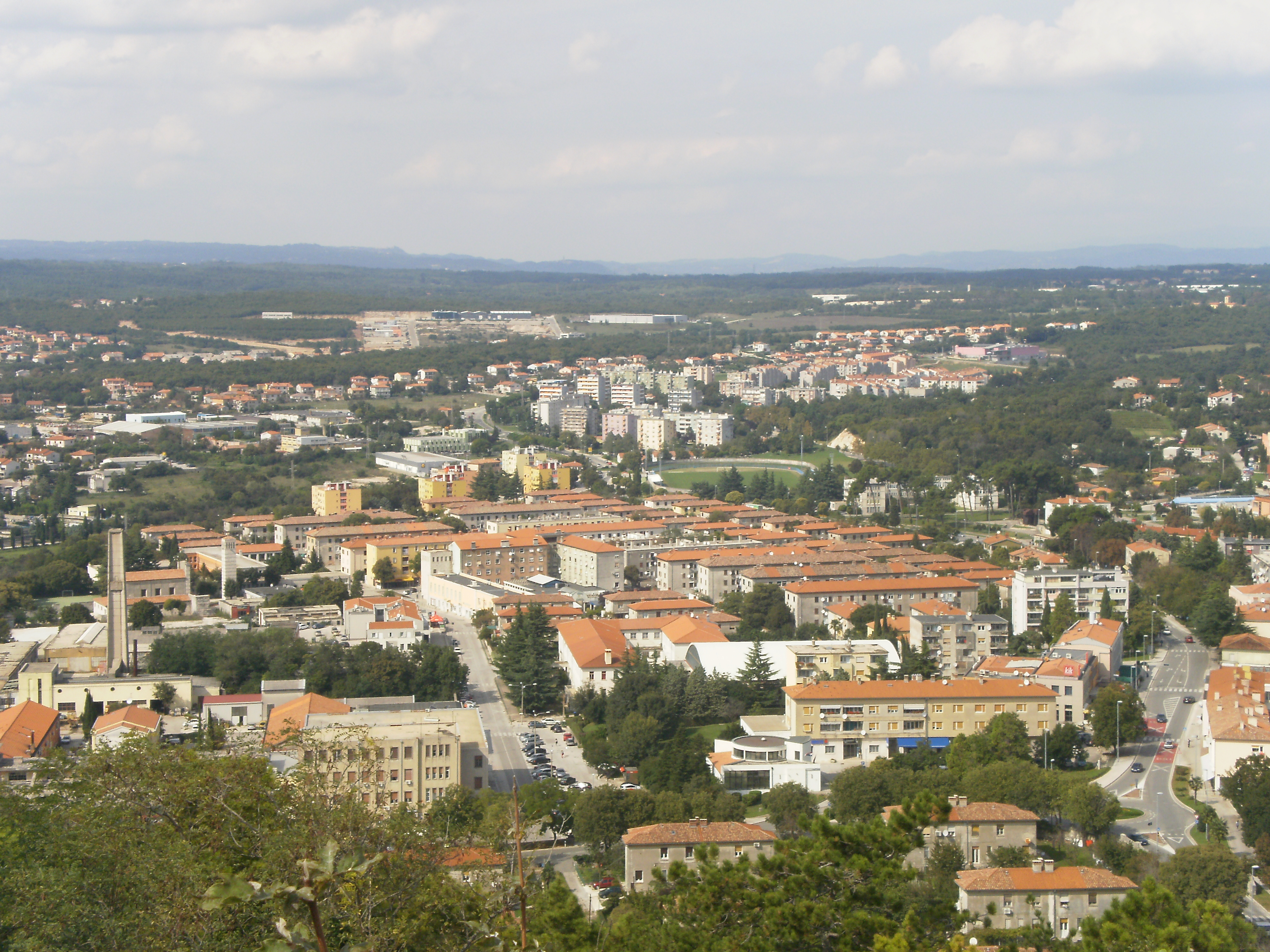 Panorama photo of Labin OLYMPUS DIGITAL CAMERA